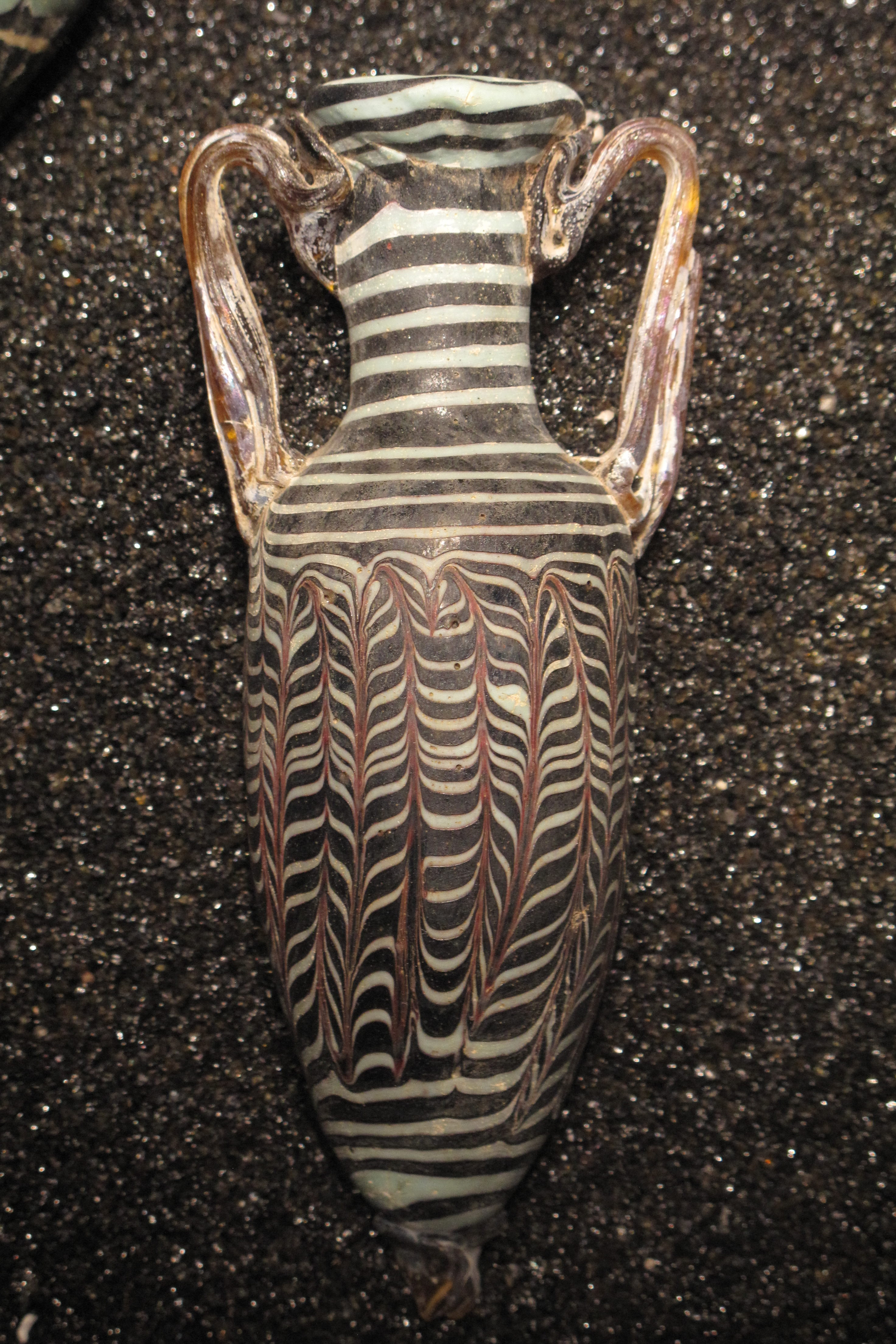 Amphora, Cyprus, 1st century BCE. Catalog I collection Wolf n° 58, 59, 61 & 62. On display at the Landesmuseum Württemberg.